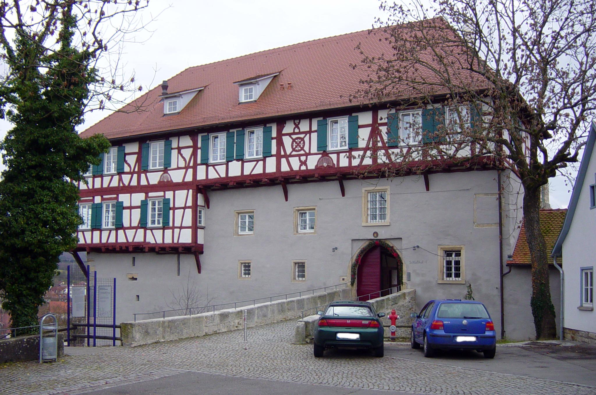 Castle in Gomaringen Germany